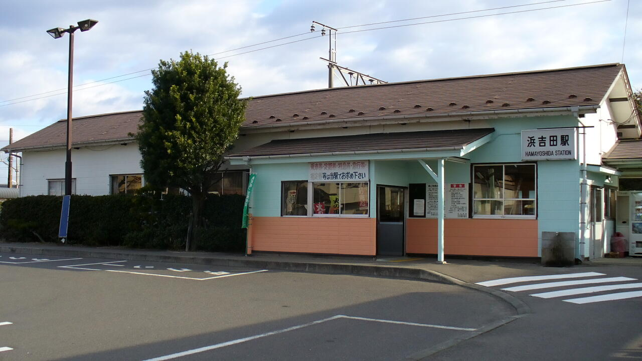 Hamayoshida Station on JR Joban Line